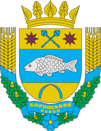 Coat of Arms of Koropskyj raion